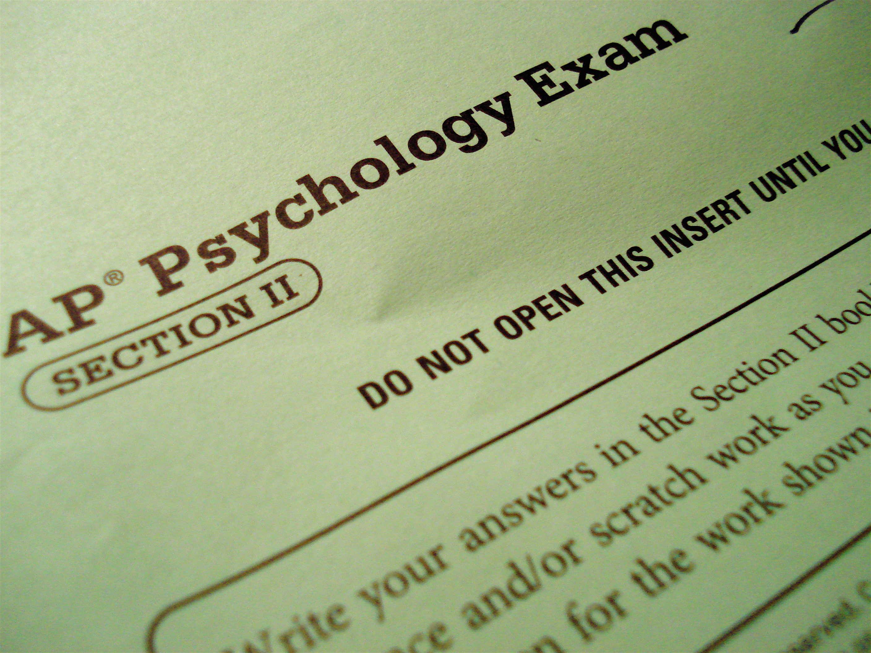 The AP Psych Test, Section II Free Response Booklet. This is returned to students two days after the exam's conclusion.